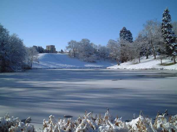 Photograph of the Newton Park campus of Bath Spa University College - This image shows the upper lake.